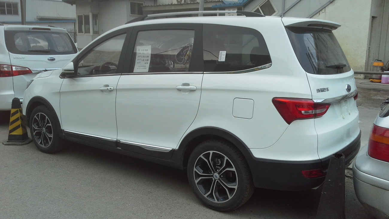 Karry K60 photographed in Beijing, China.